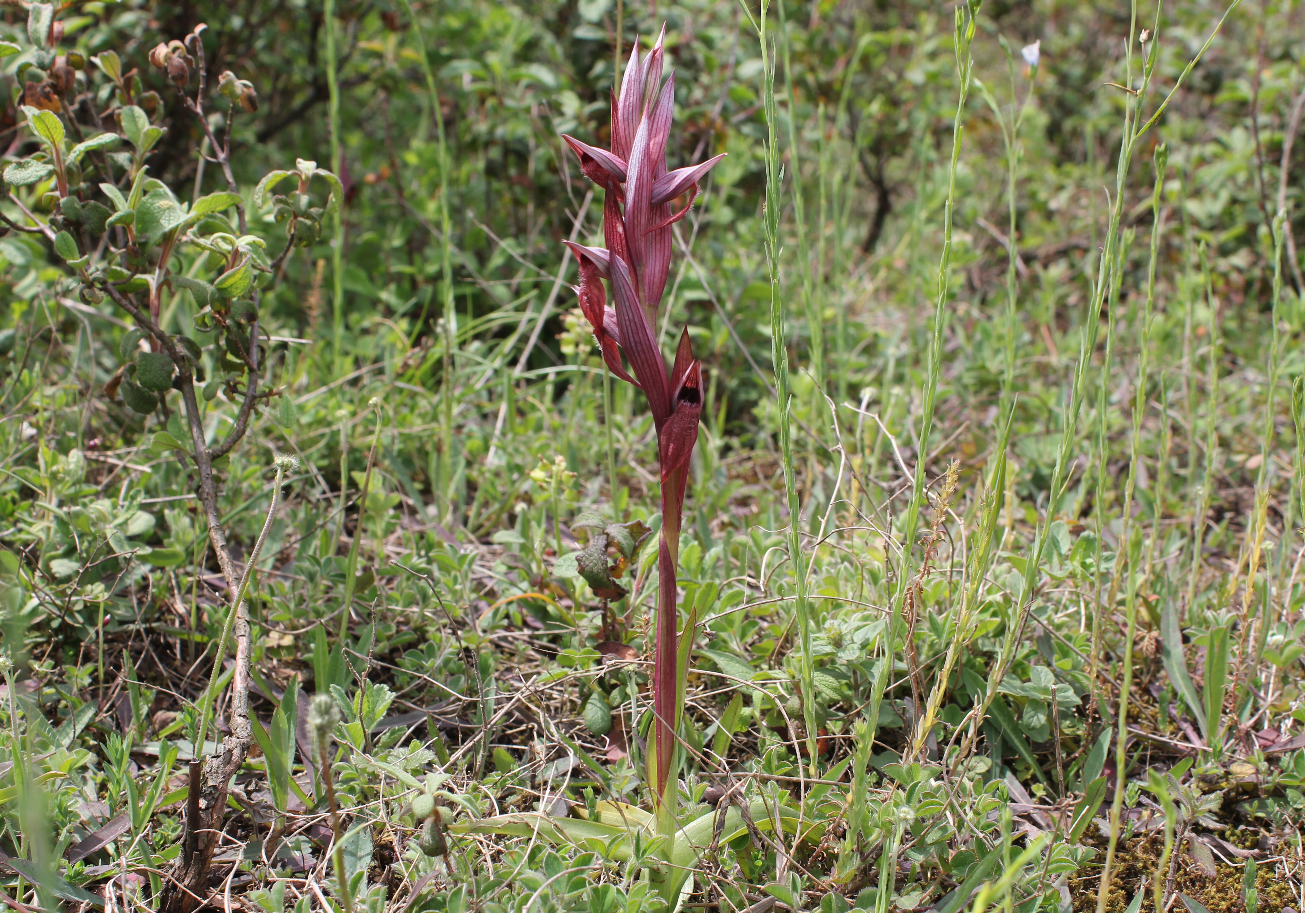 Serapias vomeracea scape